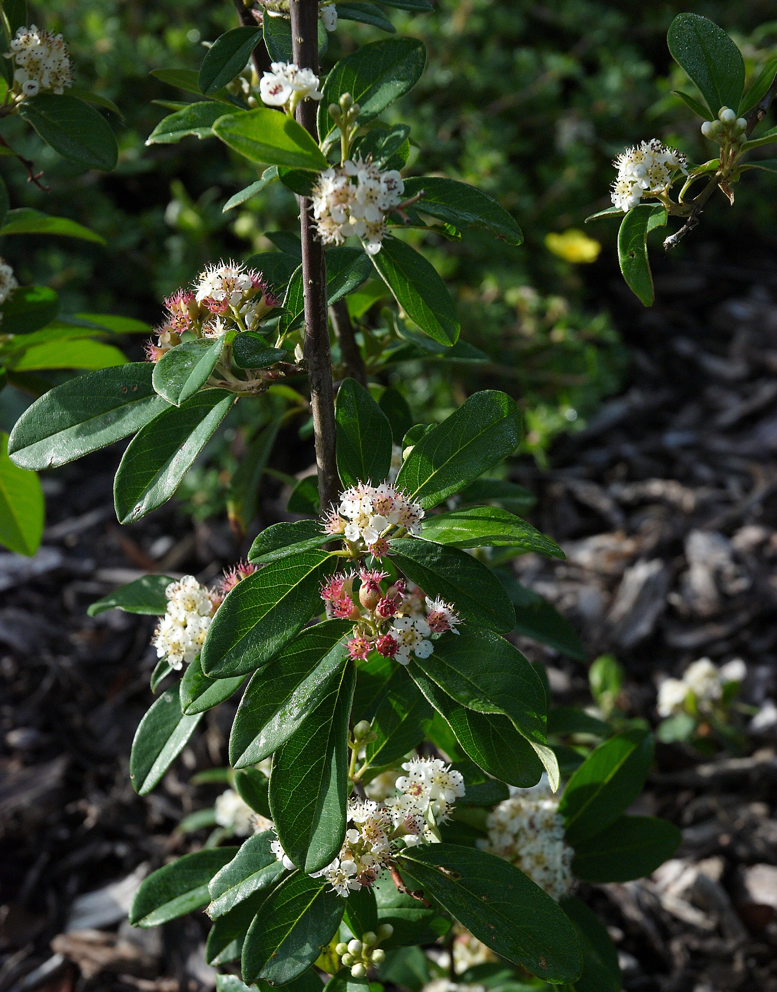 Cotoneaster × watereri 'Pendulus' Other photos of the same plant Cotoneaster × watereri C.jpg Cotoneaster × watereri D.jpg Cotoneaster × watereri E.jpg Cotoneaster × watereri F.jpg Cotoneaster × watereri G.jpg